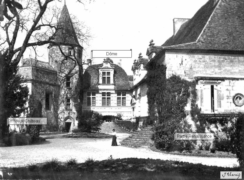 This photograph was taken by Jean Charrié around 1900. The castle of Lauzun had belonged to the family Charrié since 1837.